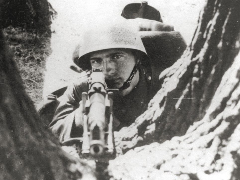 Polish infantry soldier, September 1939.